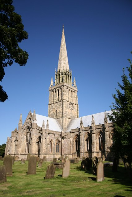 Queen of Holderness, Patrington, East Riding of Yorkshire, England.St.Patrick's church in Patrington, arguably the finest parish church in the Realm.